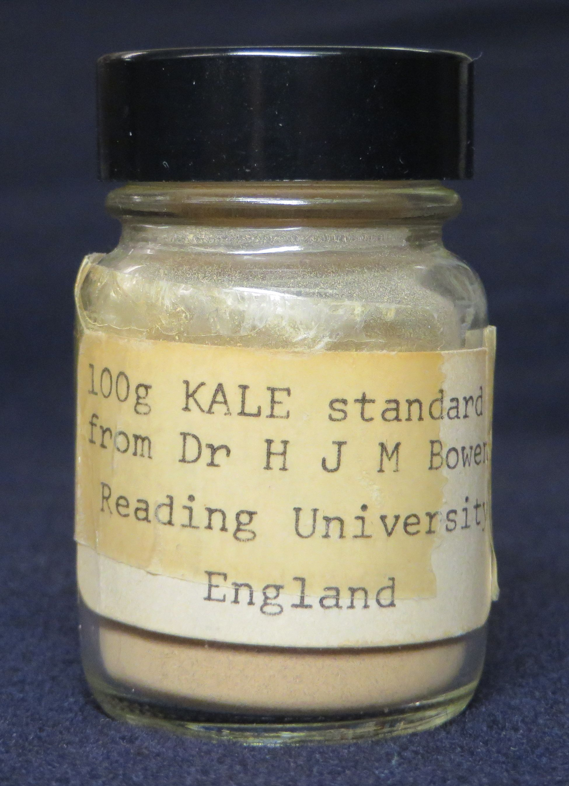 A jar of Bowen's Kale, a calibration substance for trace elements, in the collection of the Museum of the History of Science, University of Oxford, England. Humphry Bowen takes leaf tissue of Marrow Stem Kale to prepare it.